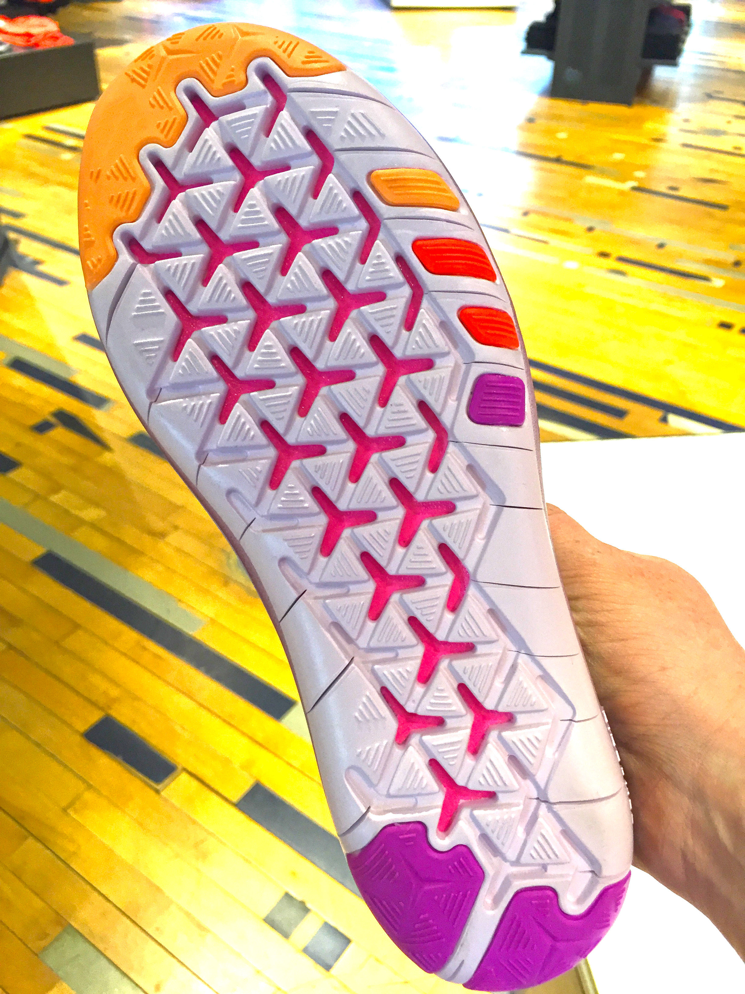 This photograph depicts a piece of women's athletic footwear with a sole whose auxetic design allows the sole to expand in size, increasing flexibility.